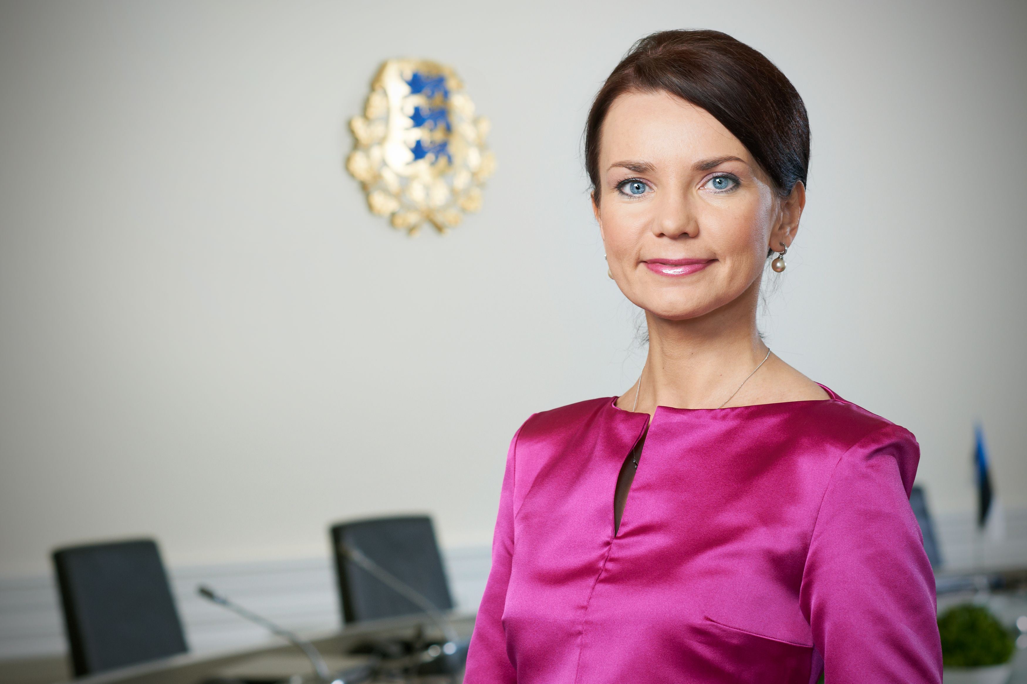 Keit Pentus